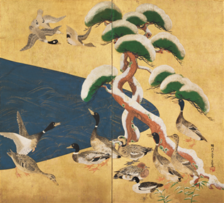 雪松群禽図屏風 by Ogata Kōrin (Okada Museum of Art)